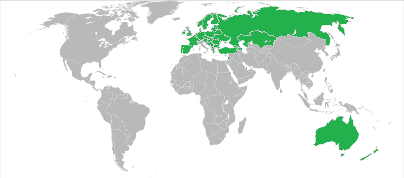 World map showing the countries were the ESC 2009 is being broadcast. Remember that not include all the countries that can watch the show, only those who has television broadcasting for is own. I ask someone to actualizate this image with a better view, because my computer make this to the pictures that I take from commons :S